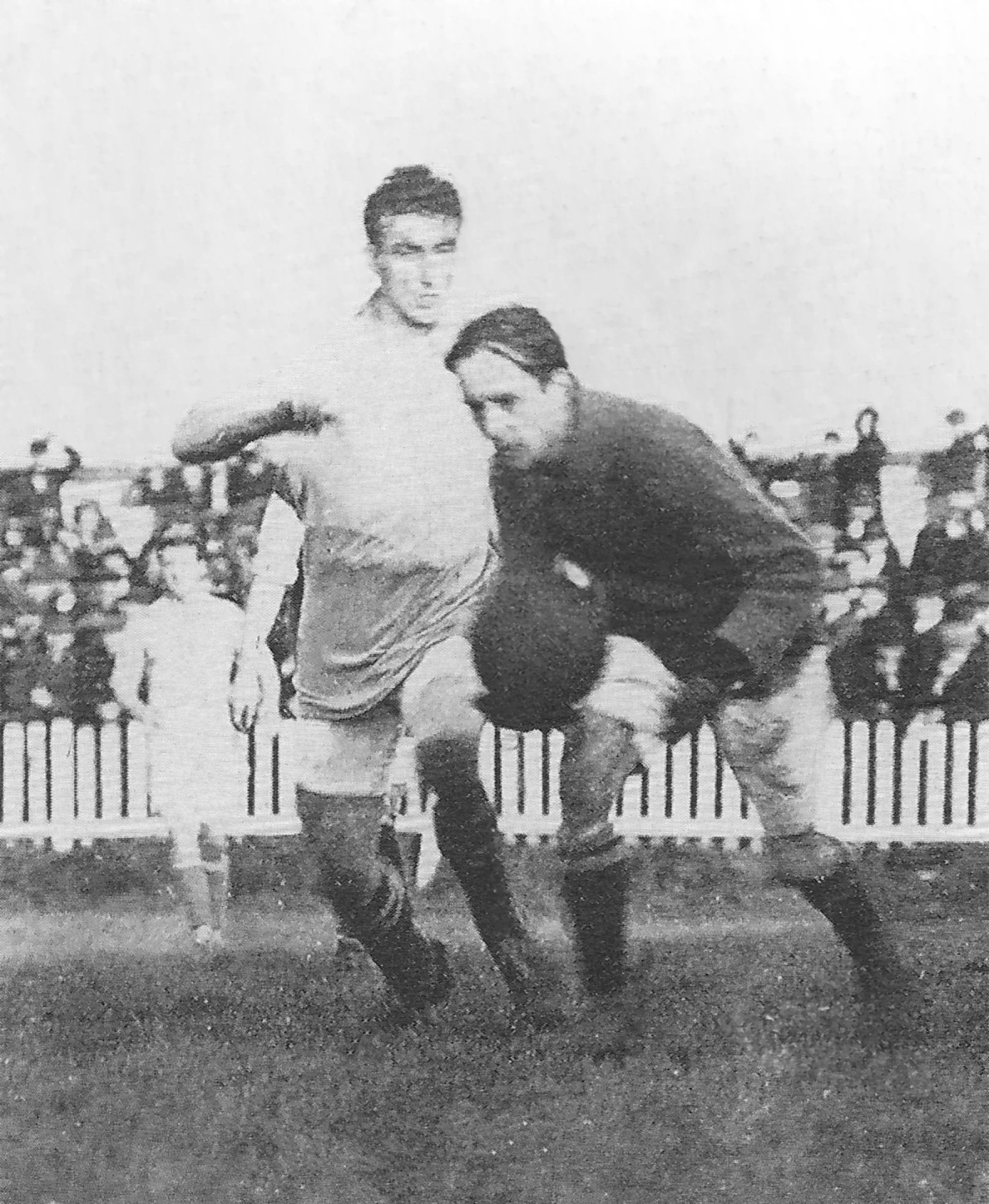 Stan Rowlands of Tranmere Rovers F.C. challenges South Liverpool goalkeeper Harry Bradshaw